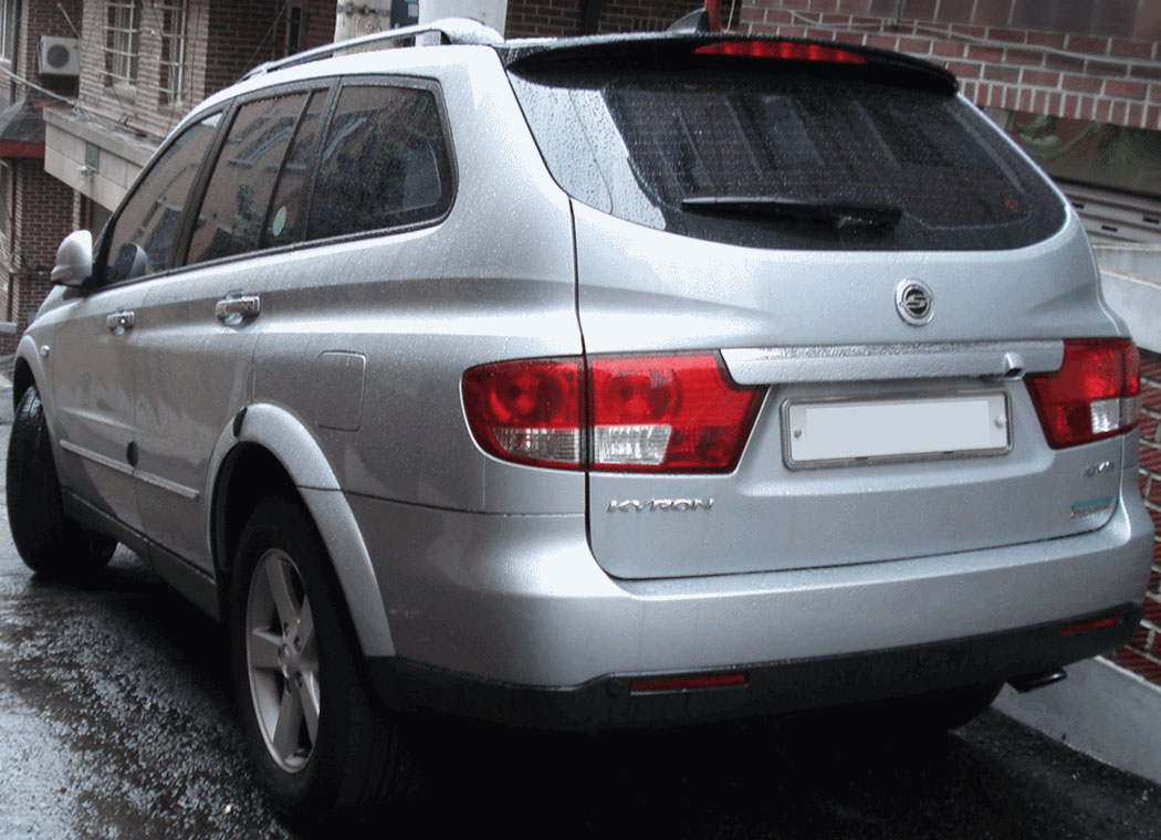 SsangYong New Kyron